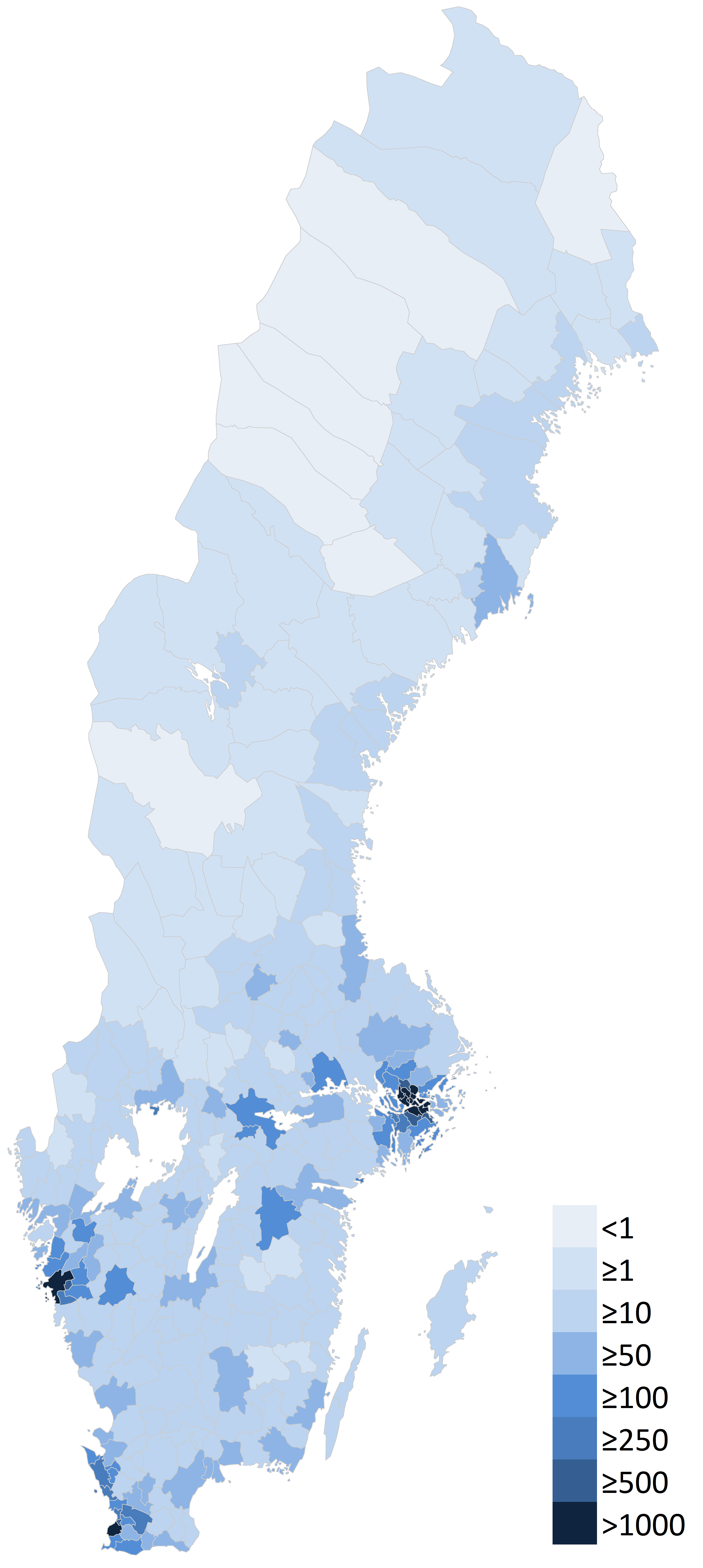 Swedish population density by municipality with data from 31st December 2016.